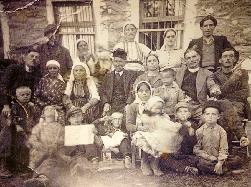 Macedonian family from Tetovo in World War II